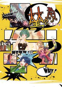 Flyfire Festival 2009 booklet cover